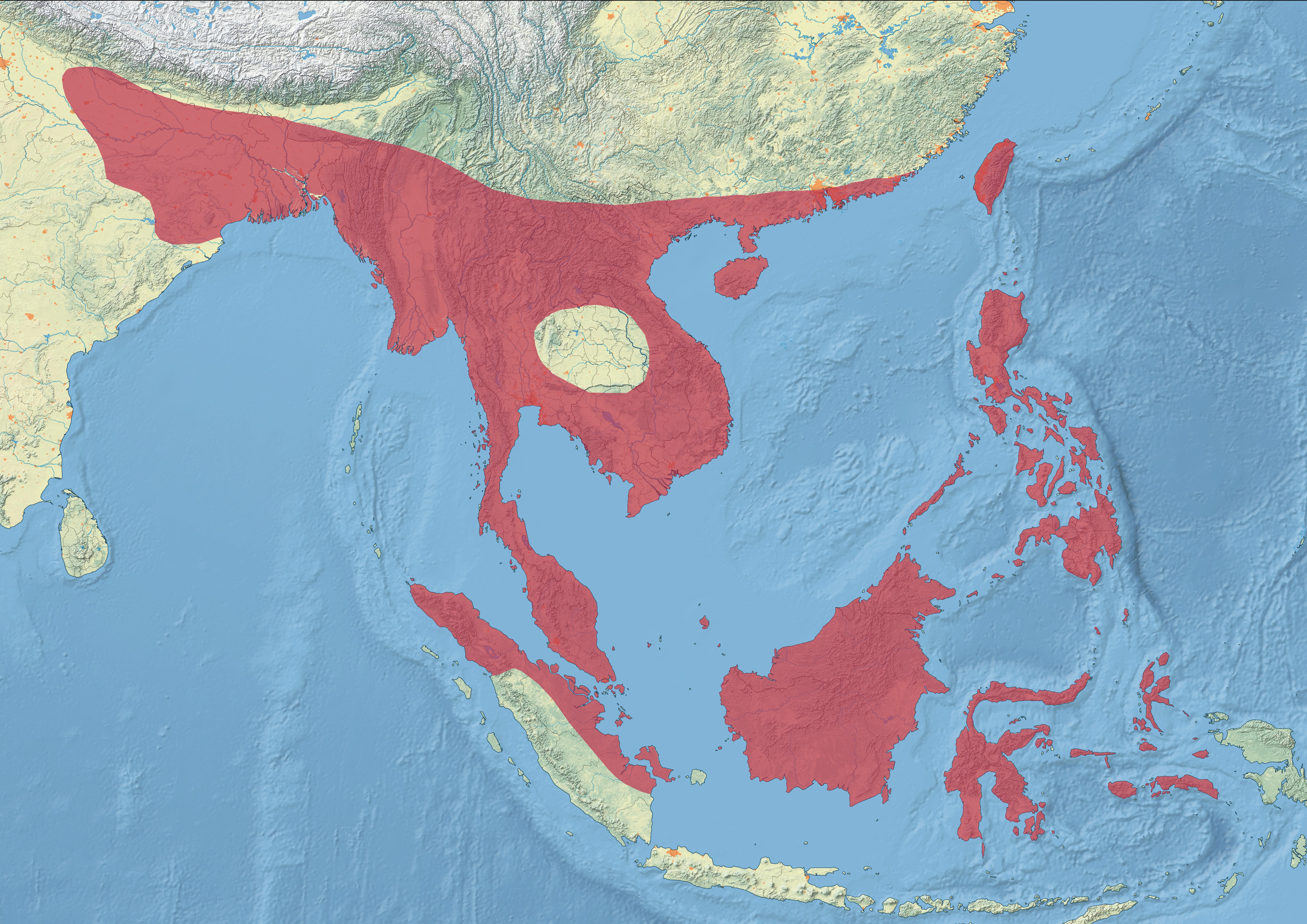 The IUCN Distribution of Chestnut Munia Maroon = Resident Purple = Breeding Orange = Non-breeding Hatched = Passage Grey = Possibly Extinct Blue = Introduced